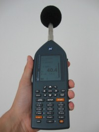 handheld sound level meter (Norsonic Nor140)